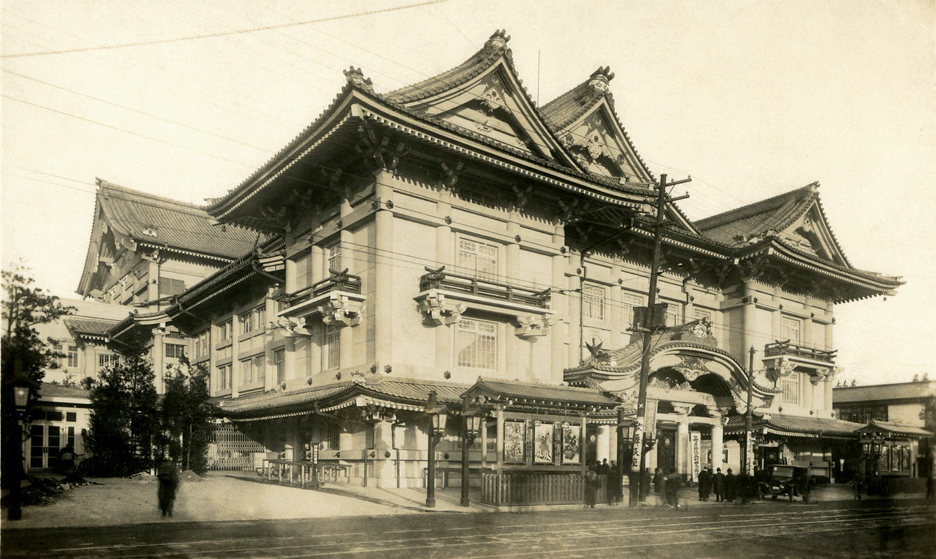 Tokyo Kabukiza Theater